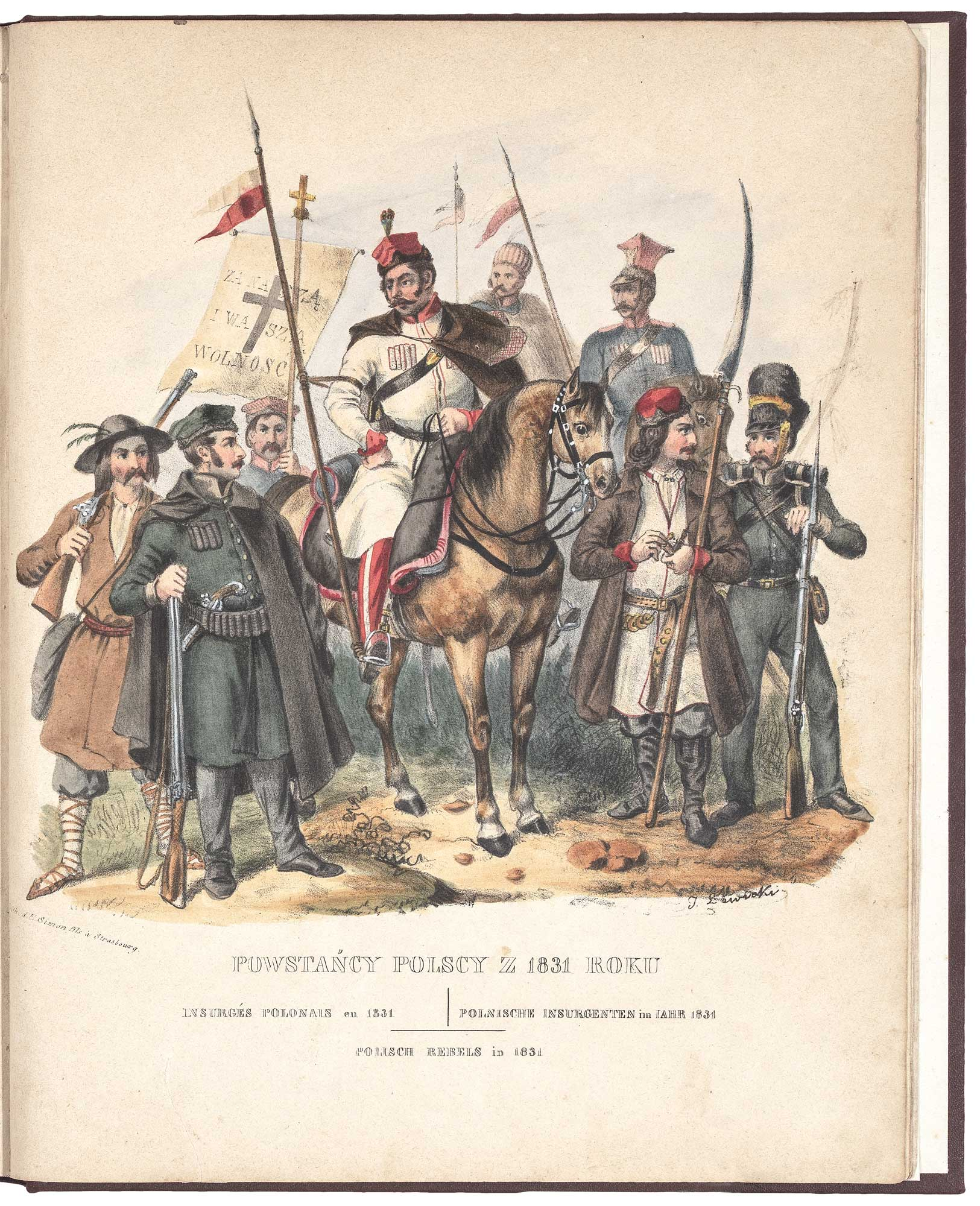 Plate from a copy of Le Costumes du Peuple Polonais suivis d'une Description Exacte de ses Moeurs, de ses Usages et de ses Habitudes. Ouvrage Pittoresque. by Leon Zienkowicz (Paris: La Librarairie Polonaise, 1841, First Edition). Offered for sale in 2019 and described as "Large 4to, modern cloth gilt; title, dedication, pp.(ii) + 125 + (2) (index & list of plates), 37 (of 39) lithographs with fine original colour heightened with gum arabic. Some toning of paper [...] The plates, each titled in Polish, French, German and English, are mostly after Jan Nepomucen Lewicki (1795-1871), another exile. They were lithographed by Simon in Strasbourg and have exquisite original hand colour."